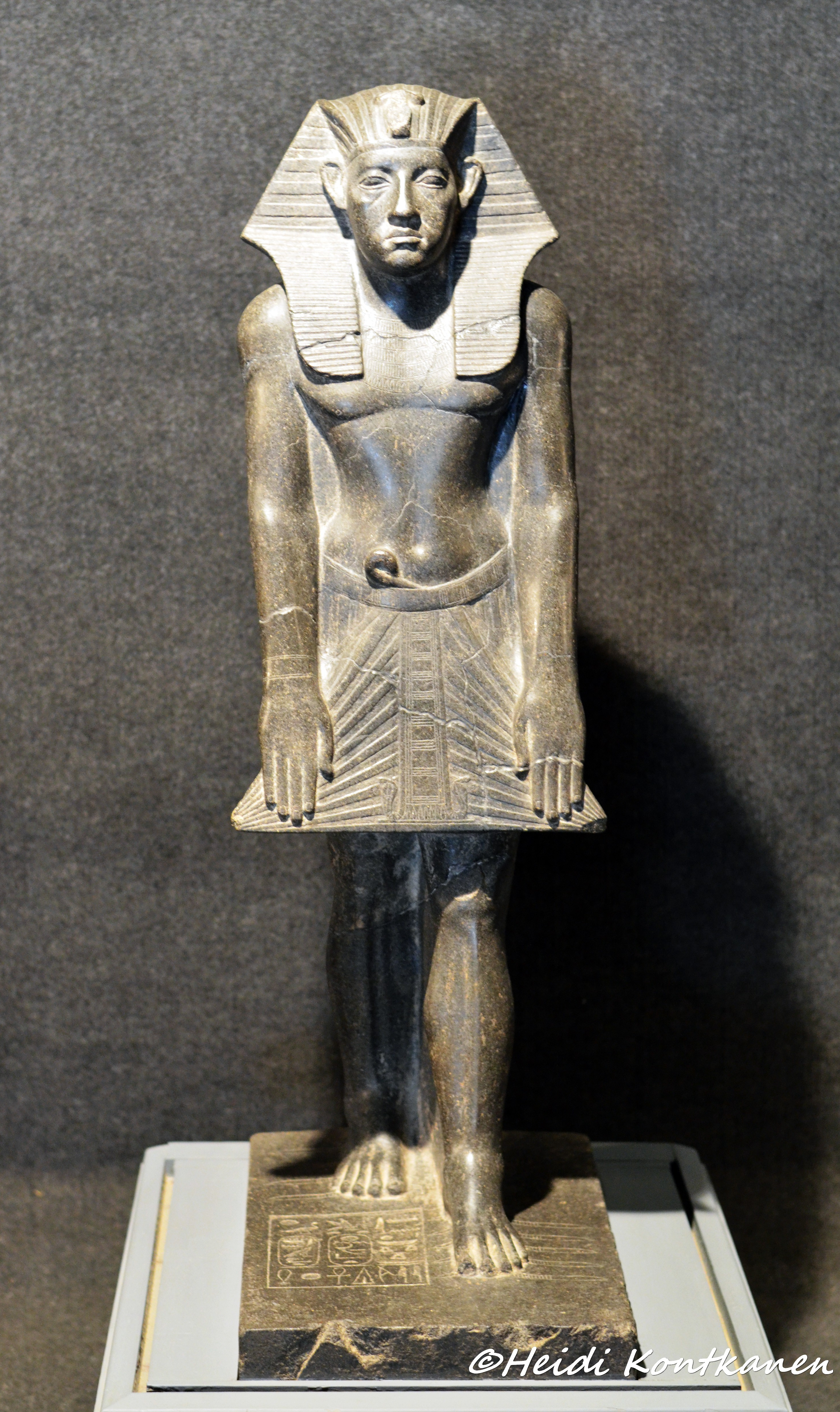 A statue representing king Amenemhat III, shows his stern features reflecting the typical and characteristic style of sculpture from Middle Kingdom. 12th dynasty, from Karnak Luxor Museum